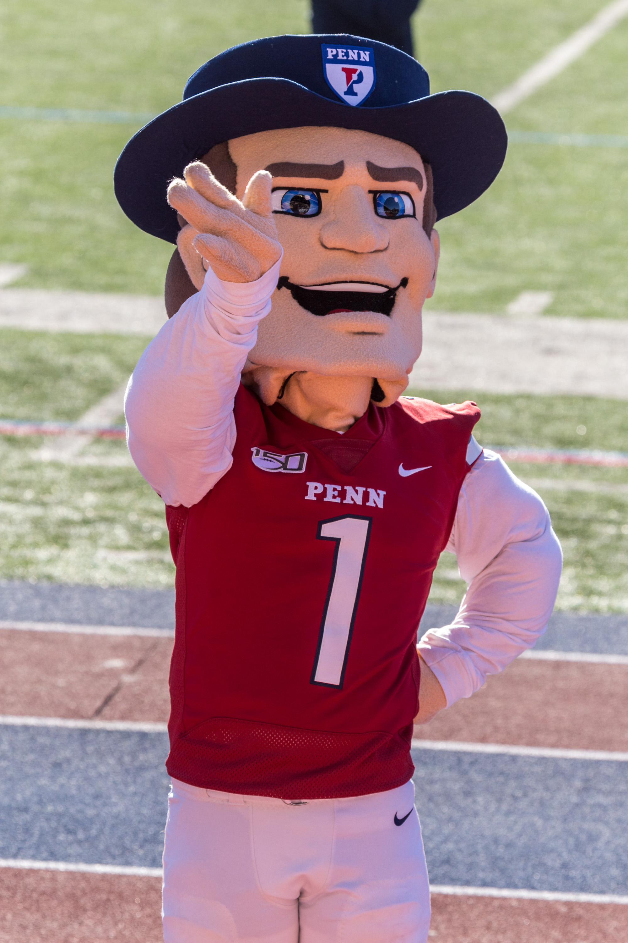 UPenn vs. Cornell football game, November 9, 2019. Penn won, 21-20.